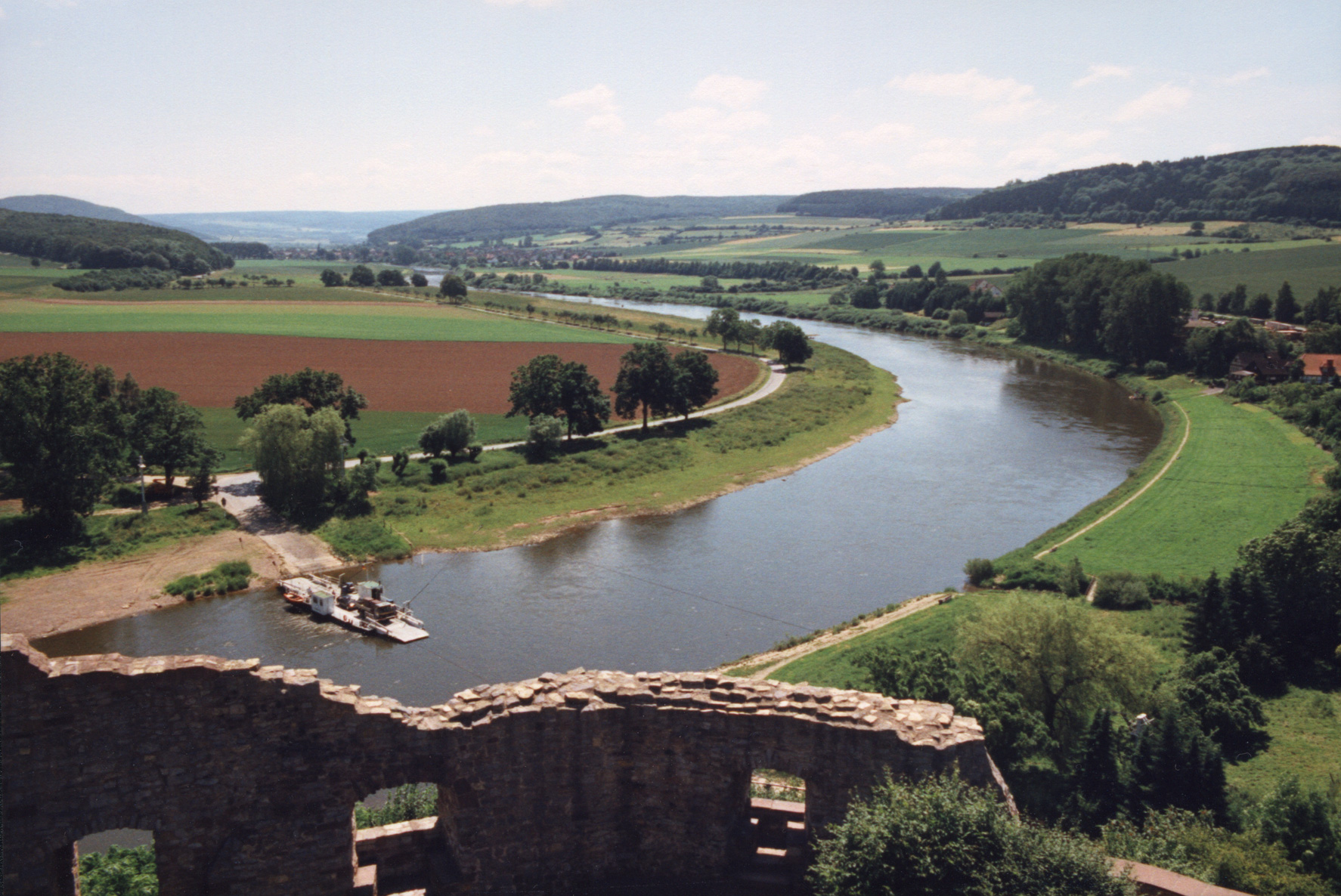 The Weser near the city Polle